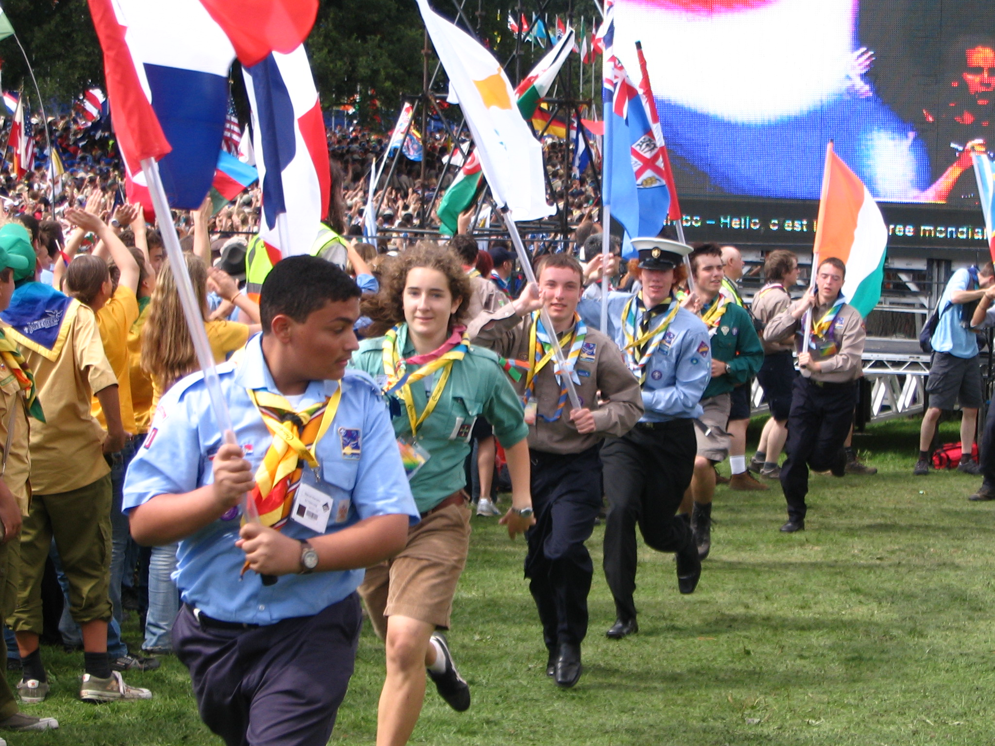 Some of the holders of the flags of all represented countries in 2007 World Scout Jamboree, running during the Opening Ceremony.